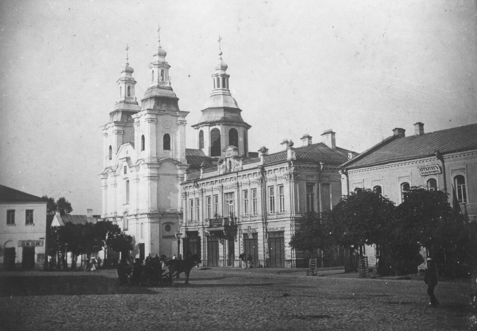 Catholic church of St. Francis Ksaver and the baroque Monastery of Jesuits in Mahiloŭ. Destroyed by bolsheviks in 1960s.